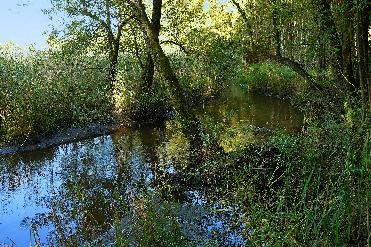 Ploužnický stream near Hradčany airport